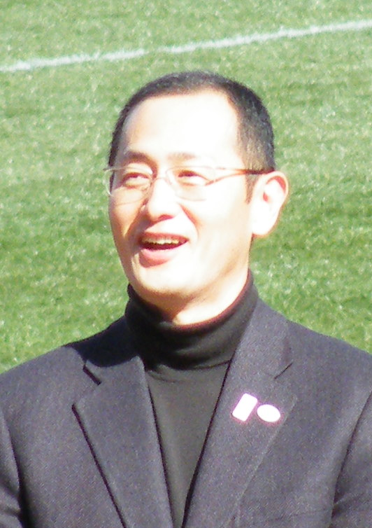 Shinya Yamanaka, Professor at Kyoto University.